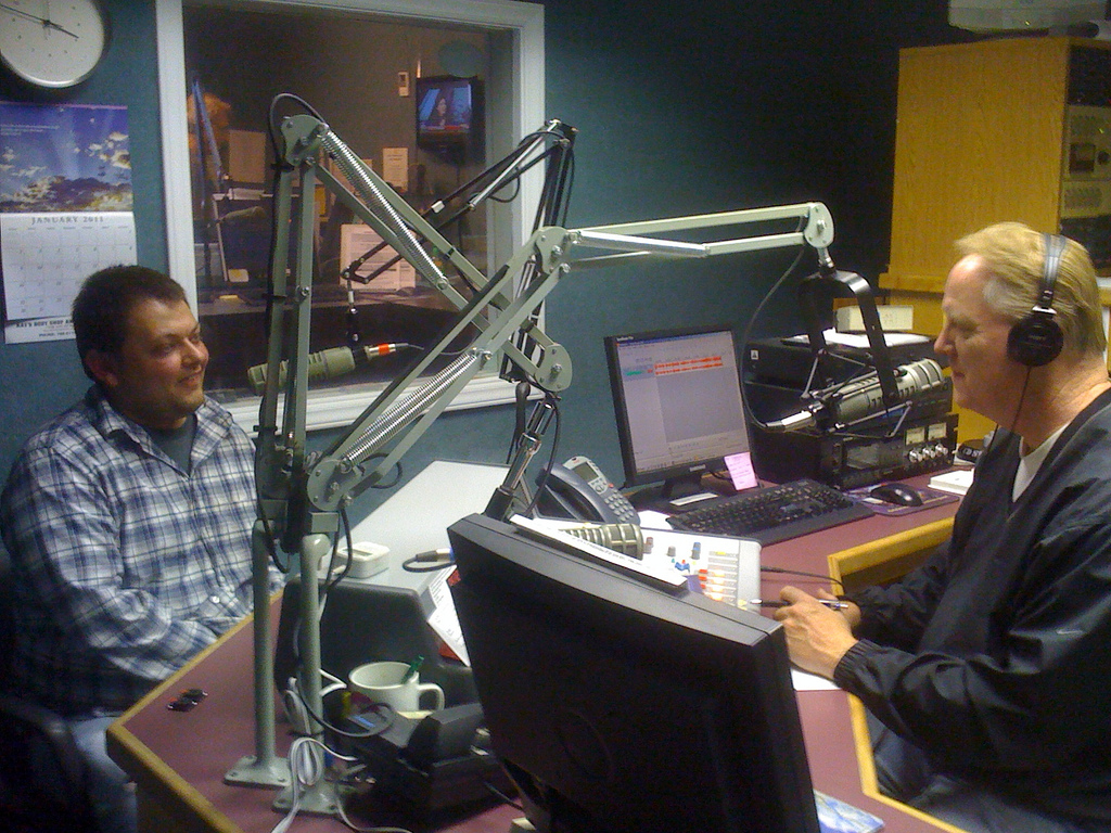 Rob Blackwell at WBFJ